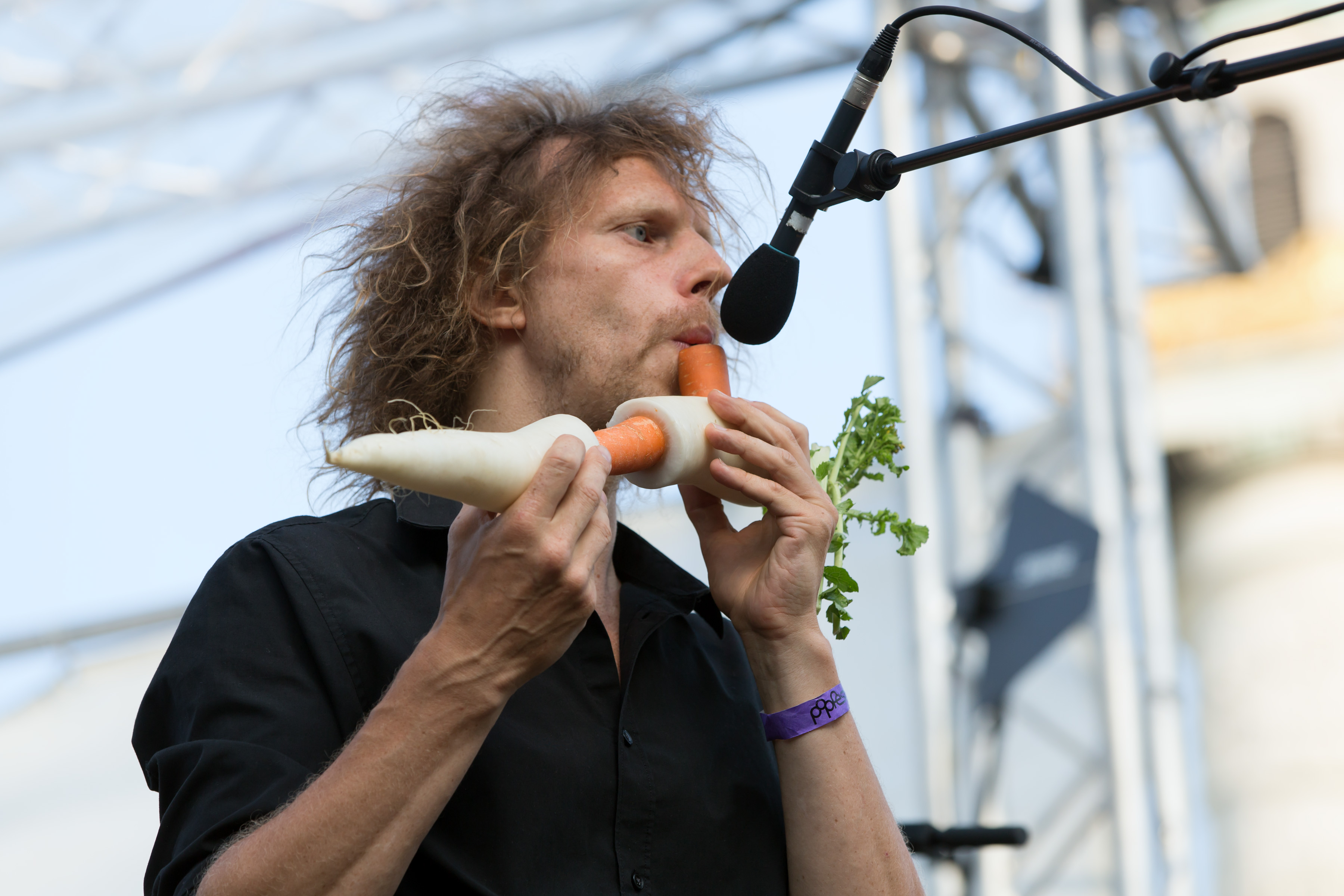 Popfest 2015: The Vegetable Orchestra; Karlsplatz in Vienna, Austria.